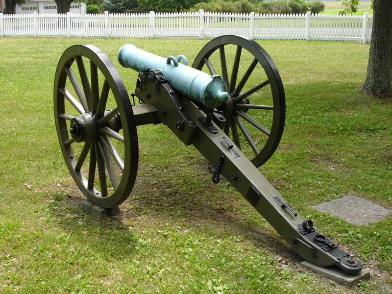 Field Gun photographed at Gettysburg National Military Park, 2005